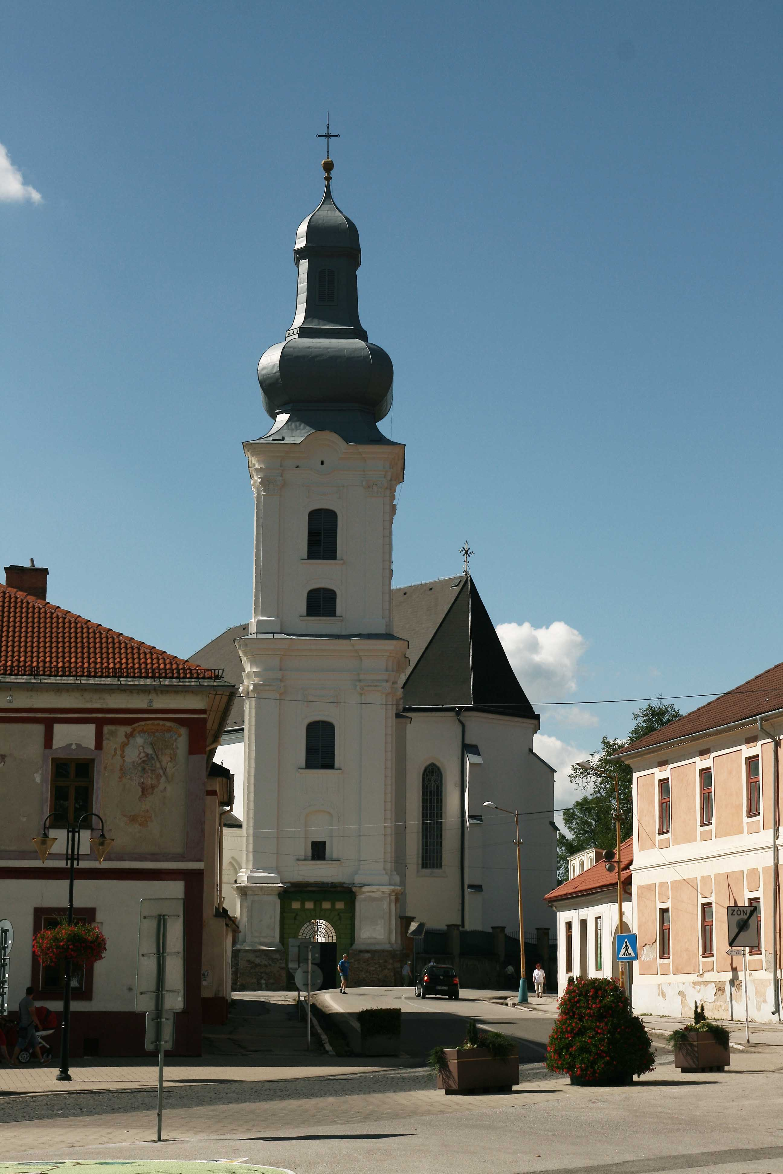 Cathedral of the Assumption from 14th century in Rožňava, Slovakia.